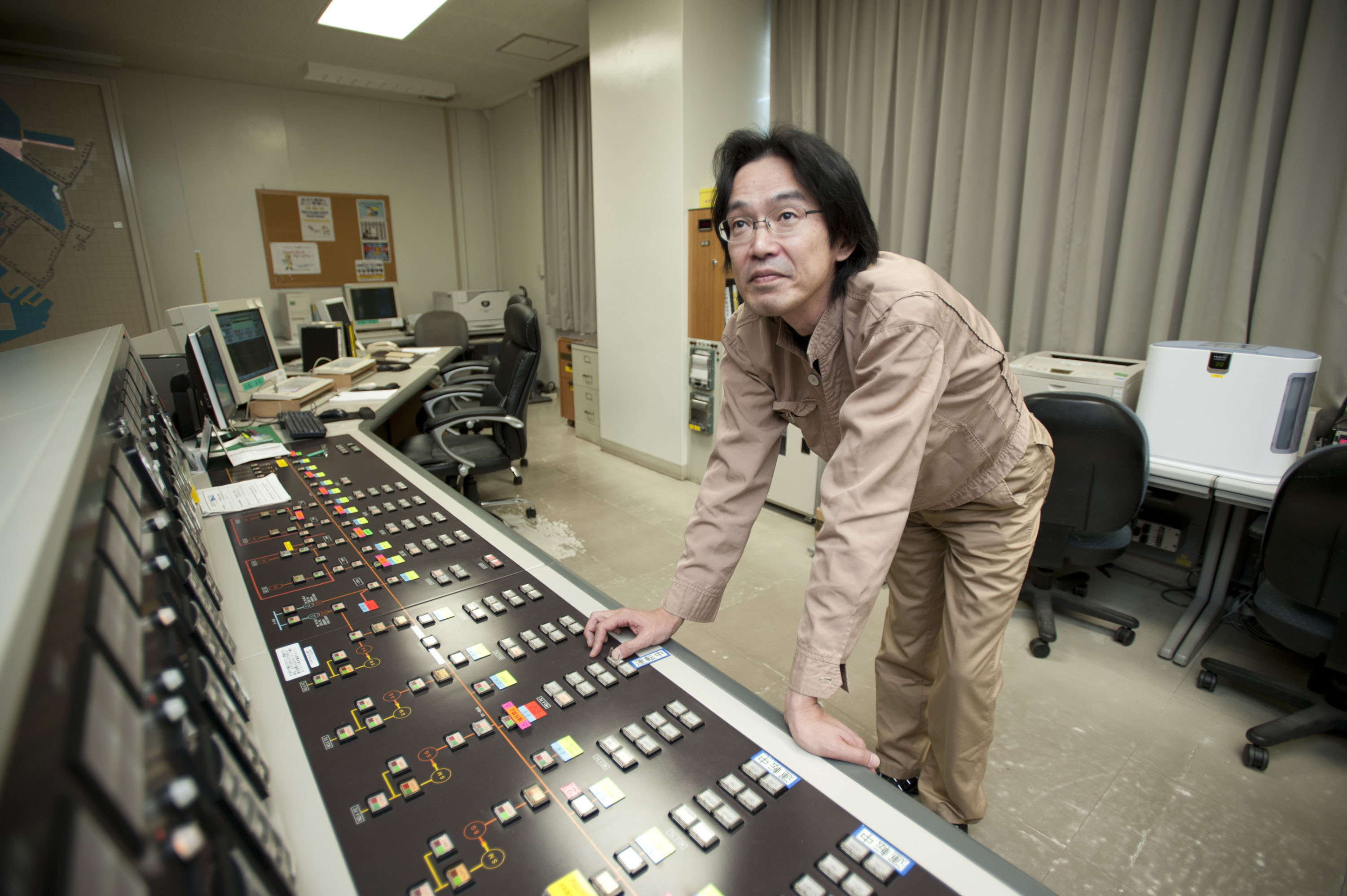 YOKOSUKA, Japan (March 28, 2011) Electric power dispatcher foreman A, Hideji Kawasaki, operates the supervisory control and data acquisition (SCADA) system to balance an electrical load inside the Commander Fleet Activities, Yokosuka SCADA control room. Members of the CFAY community are working to reduce the amount of power the base uses to help alleviate the electricity shortages after the nuclear reactors at Fukushima Daiichi power plants were damaged during the 2011 Tohoku earthquake and tsunami that hit northern Japan on March 11. (U.S. Navy photo by Joe Schmitt/Released)